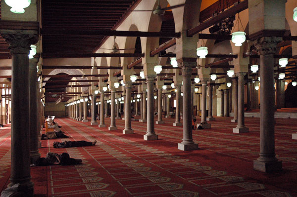 Al-Azhar Mosque. Cairo. Egypt